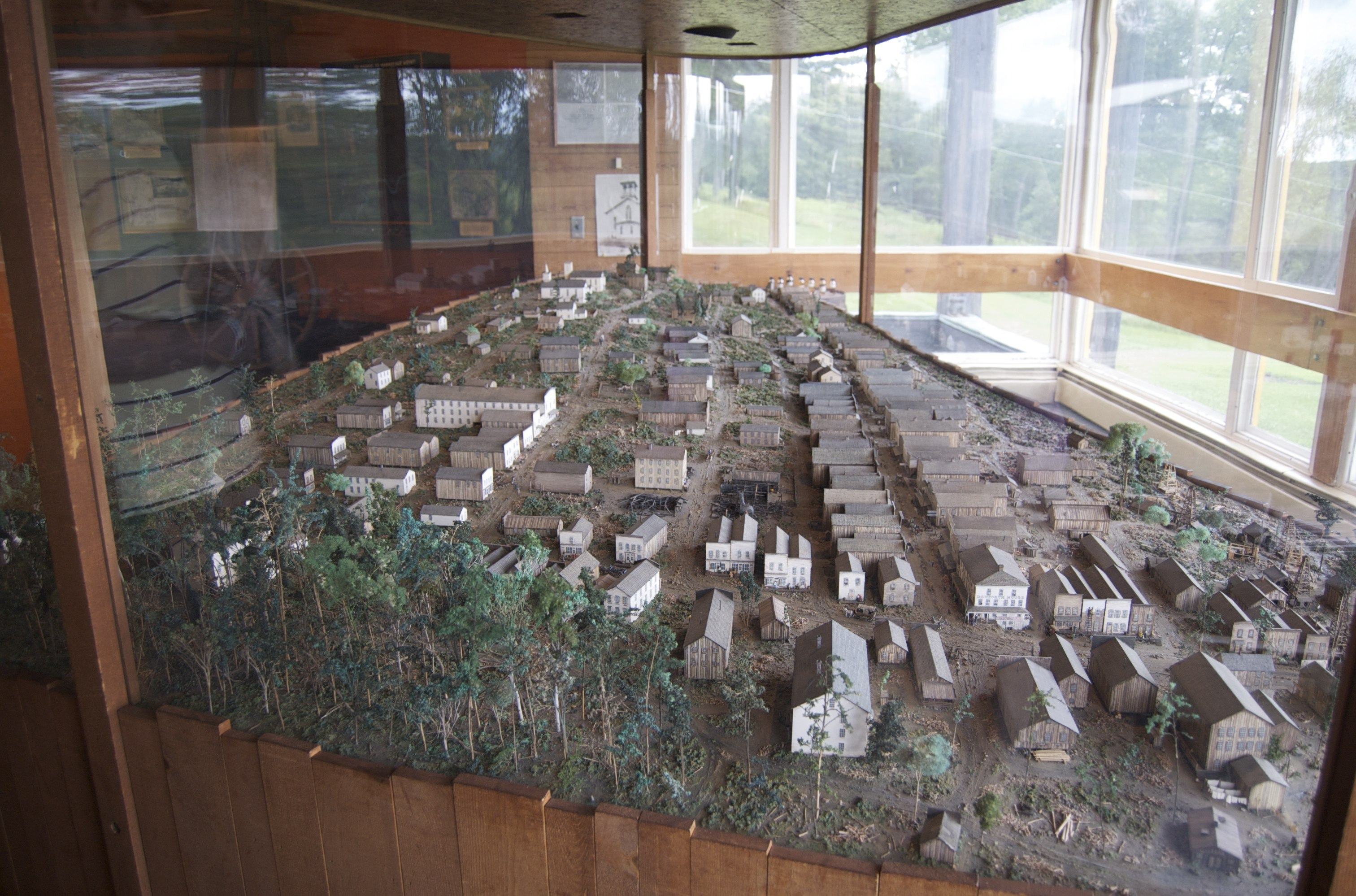 A scale model of Pithole in the visitors center in Pithole, Pennsylvania.